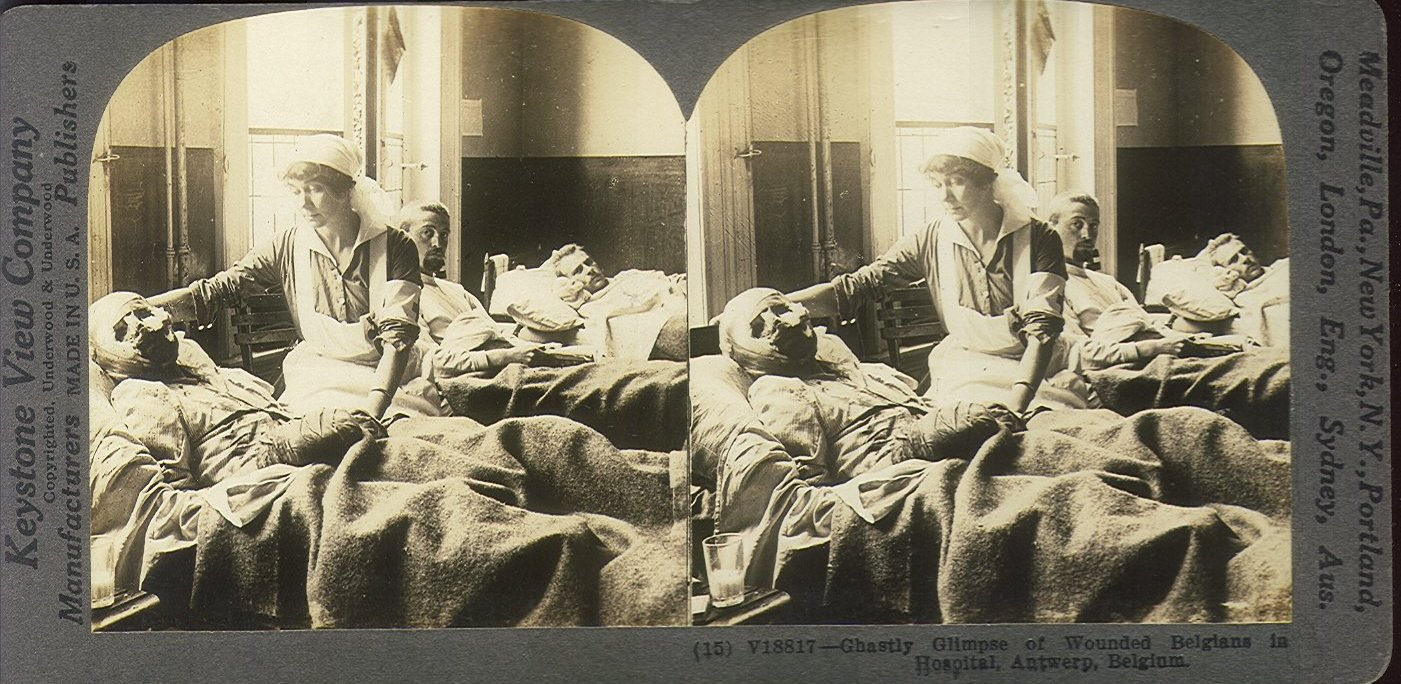 World War One stereoptic view card. "Ghastly Glimpse of Wounded Belgians in Hospital, Antwerp, Belgium"